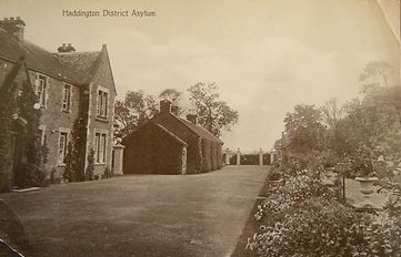 Old postcard of Haddington District Asylum